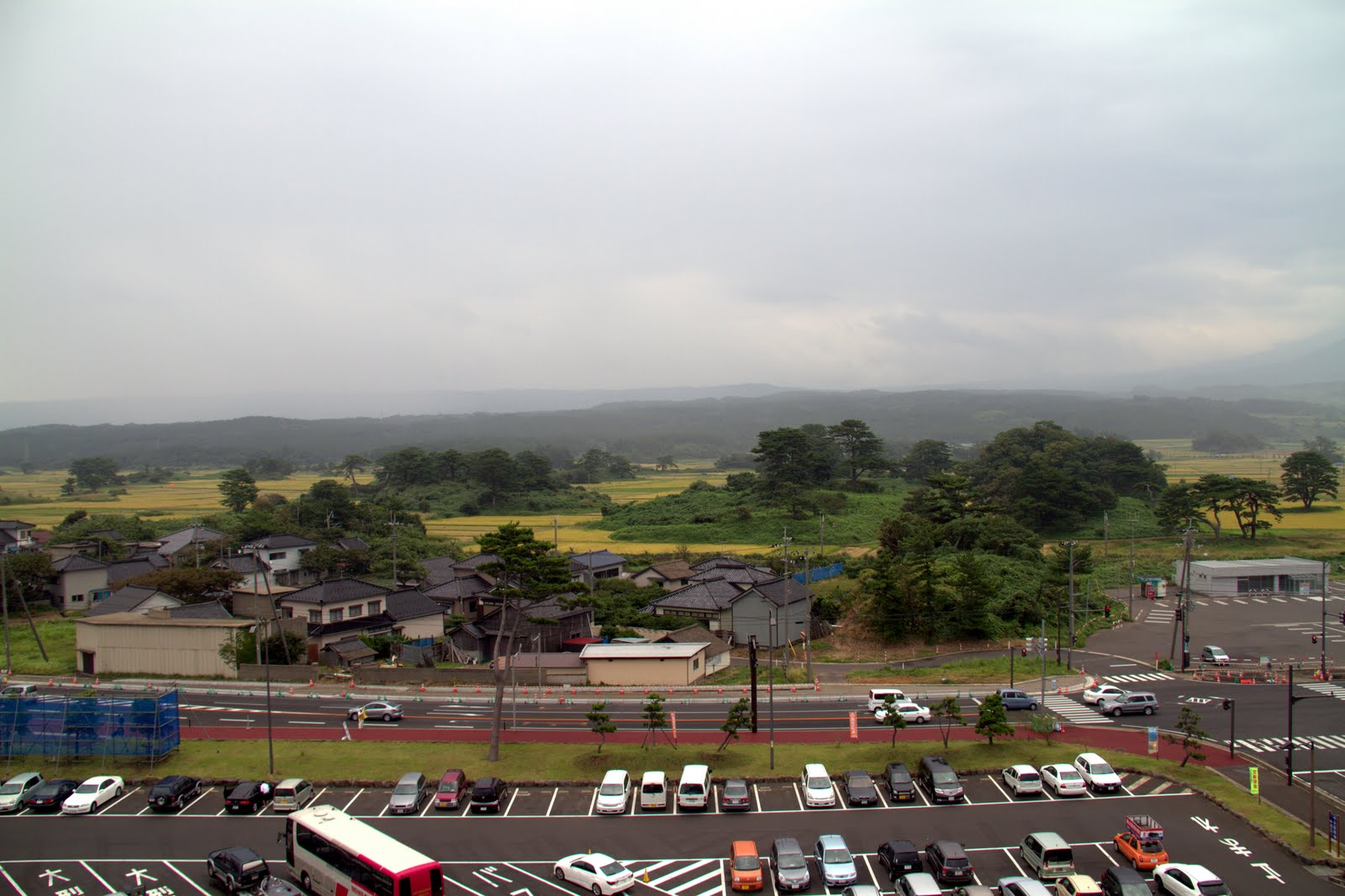 Kisakata seen from Kisakata Roadside Station .